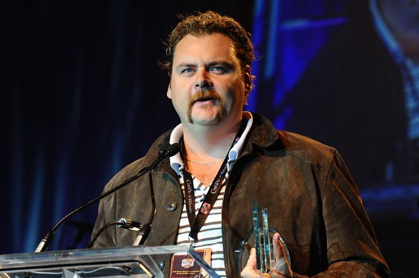 Ted Roop accapting a CCMA award in Winnepeg